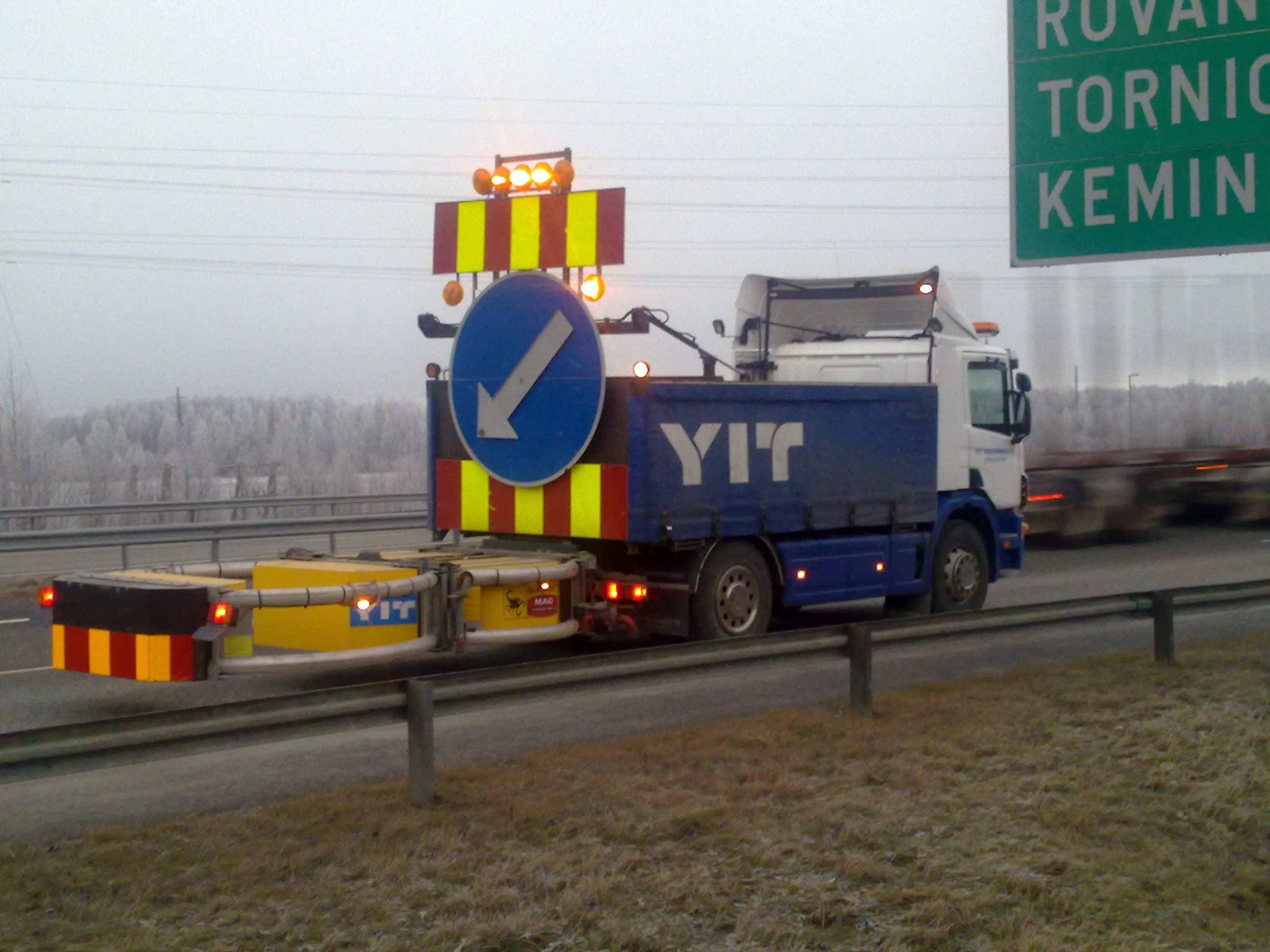 Impact Protection Vehicle (IPV) or Truck Mounted Attenuator (TMA) on the national road 4 (E8/E75) in Kemi, Finland.